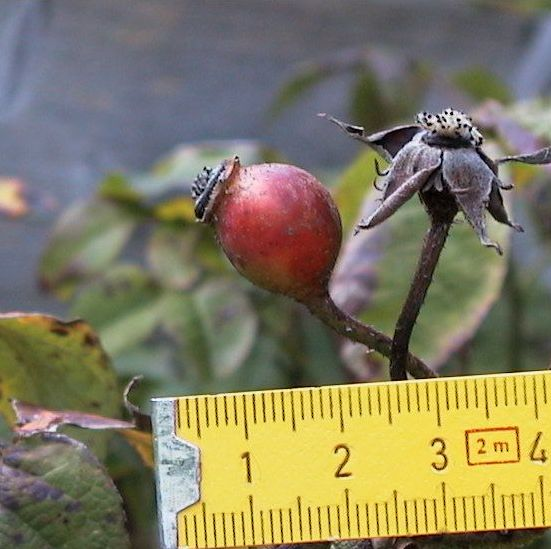 hip of Rosa gallica 'Versicolor'